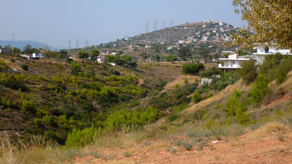 Anthoussa gully